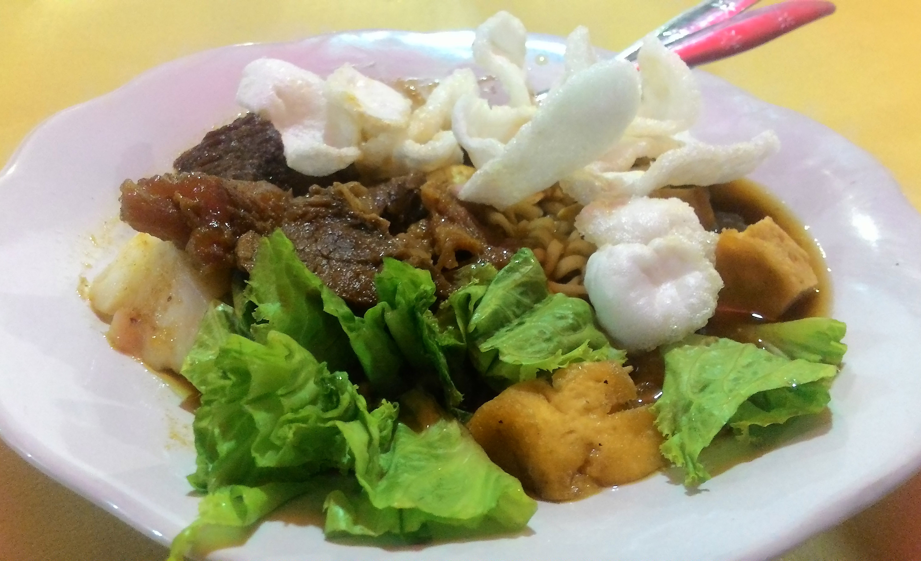 Tahu Campur or "mixed tofu" is an East Javanese dish, consists of tofu, lettuce, noodles, beansprouts, slices of beef served in beef stew seasoned with petis (a type of shrimp paste), topped with krupuk cracker. Specialty of East Java, especially Surabaya, Lamongan, Sidoarjo, and Gresik area.